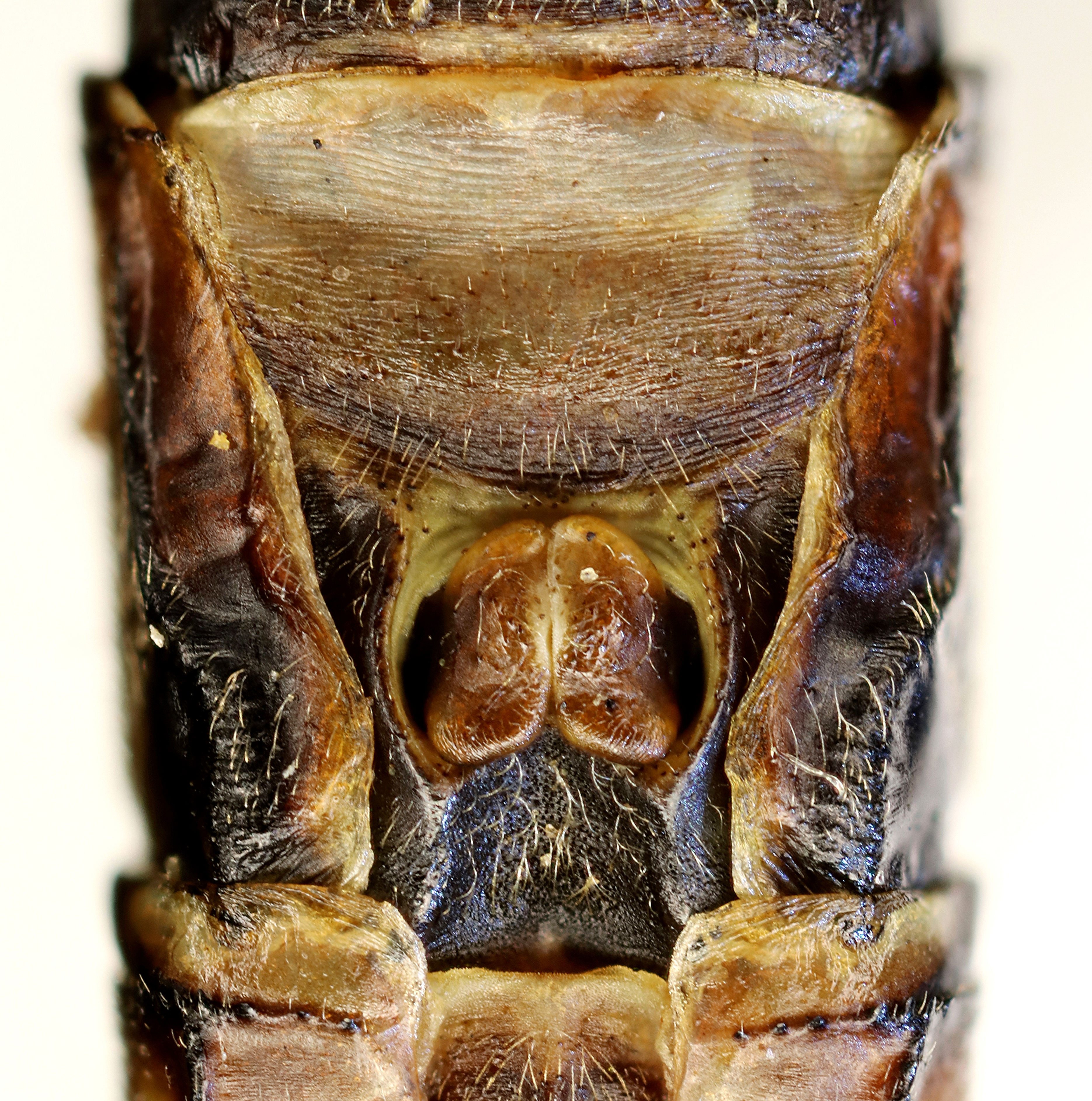 Aeshna juncea, male, 9th abdominal sternit, (head dowmside, tail up)